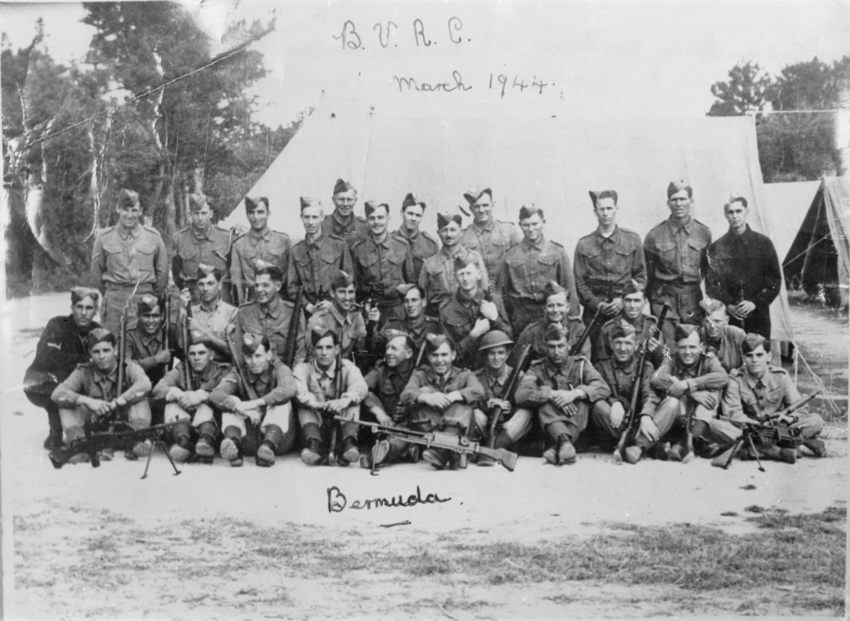 A platoon of the Bermuda Volunteer Rifle Corps (BVRC) in Bermuda, in March, 1944. Apart from serving within the Bermuda Garrison, the BVRC sent two drafts (in 1940 and 1944) to the Lincolnshire Regiment in Europe during the Second World War.